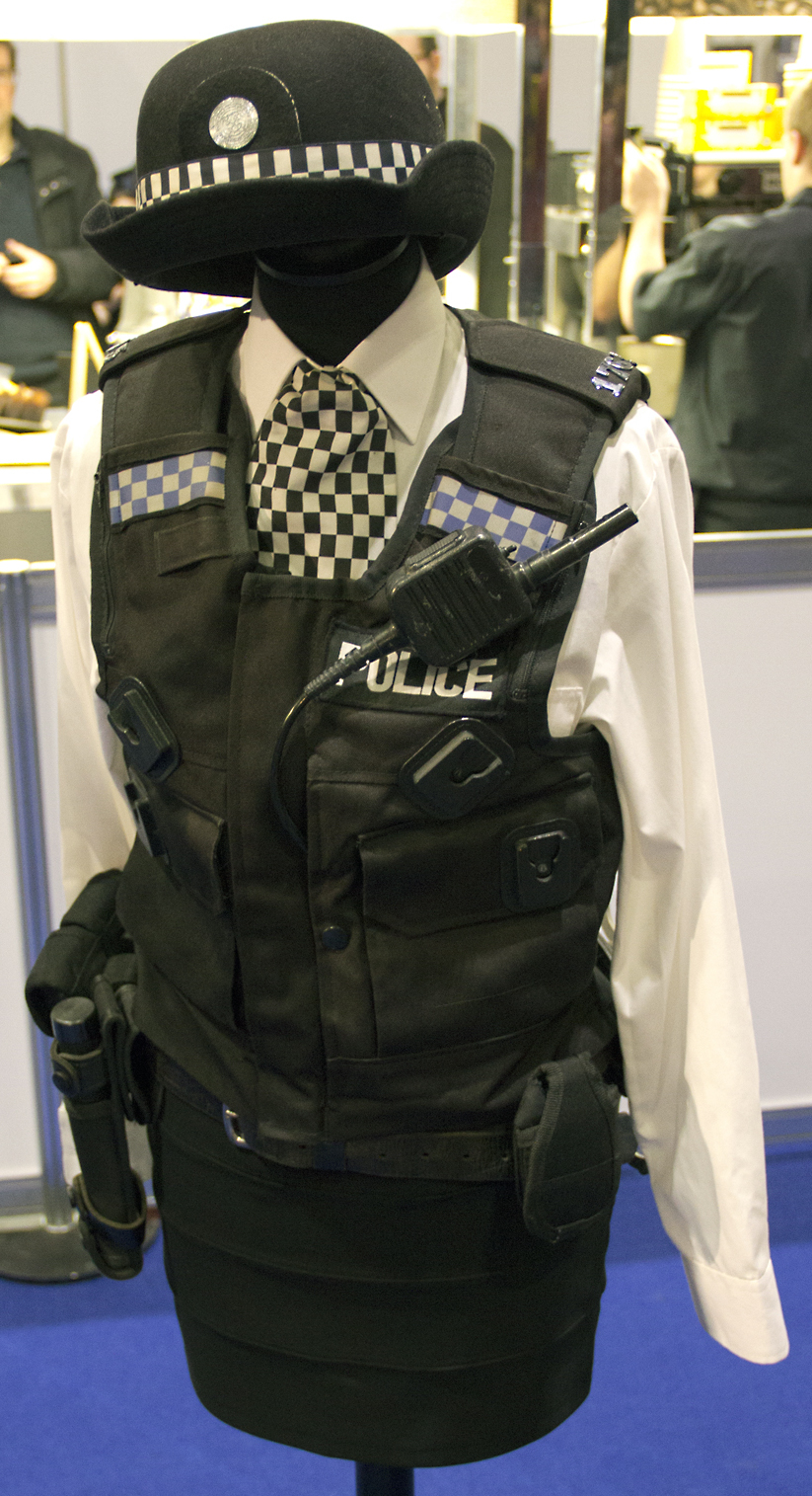 Doctor Who 50th Celebration Doctor Who 50th Anniversary celebration